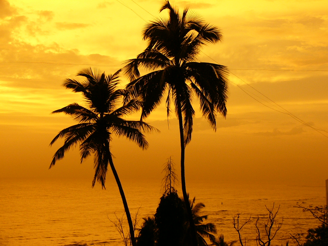 Sunset Over Bandstand, MumbaiSunset over Bandstand